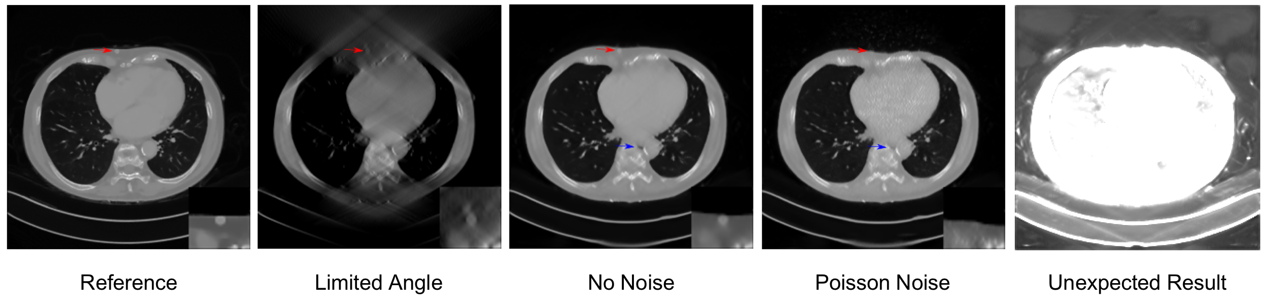 Figure 8 from Andreas Maier, Christopher Syben. Tobias Lasser. Christian Riess. "A gentle introduction to deep learning in medical image processing". Zeitschrift für Medizinische Physik Volume 29, Issue 2, May 2019, Pages 86-101. Please reference this article, if you reuse this figure. Original Caption: Results from a deep learning image-to-image reconstruction based on U-net. The reference image with a lesion embedded is shown on the left followed by the analytic reconstruction result that is used as input to U-net. U-net does an excellent job when trained and tested without noise. If unmatched noise is provided as input, an image is created that appears artifact-free, yet not just the lesion is gone, but also the chest surface is shifted by approximately 1 cm. On the right hand side, an undesirable result is shown that emerged at some point during training of several different versions of U-net which shows organ-shaped clouds in the air in the background of the image. Note that we omitted displaying multiple versions of “Limited Angle” as all three inputs to the U-Nets would appear identically given the display window of the figure of [−1000, 1000] HU.